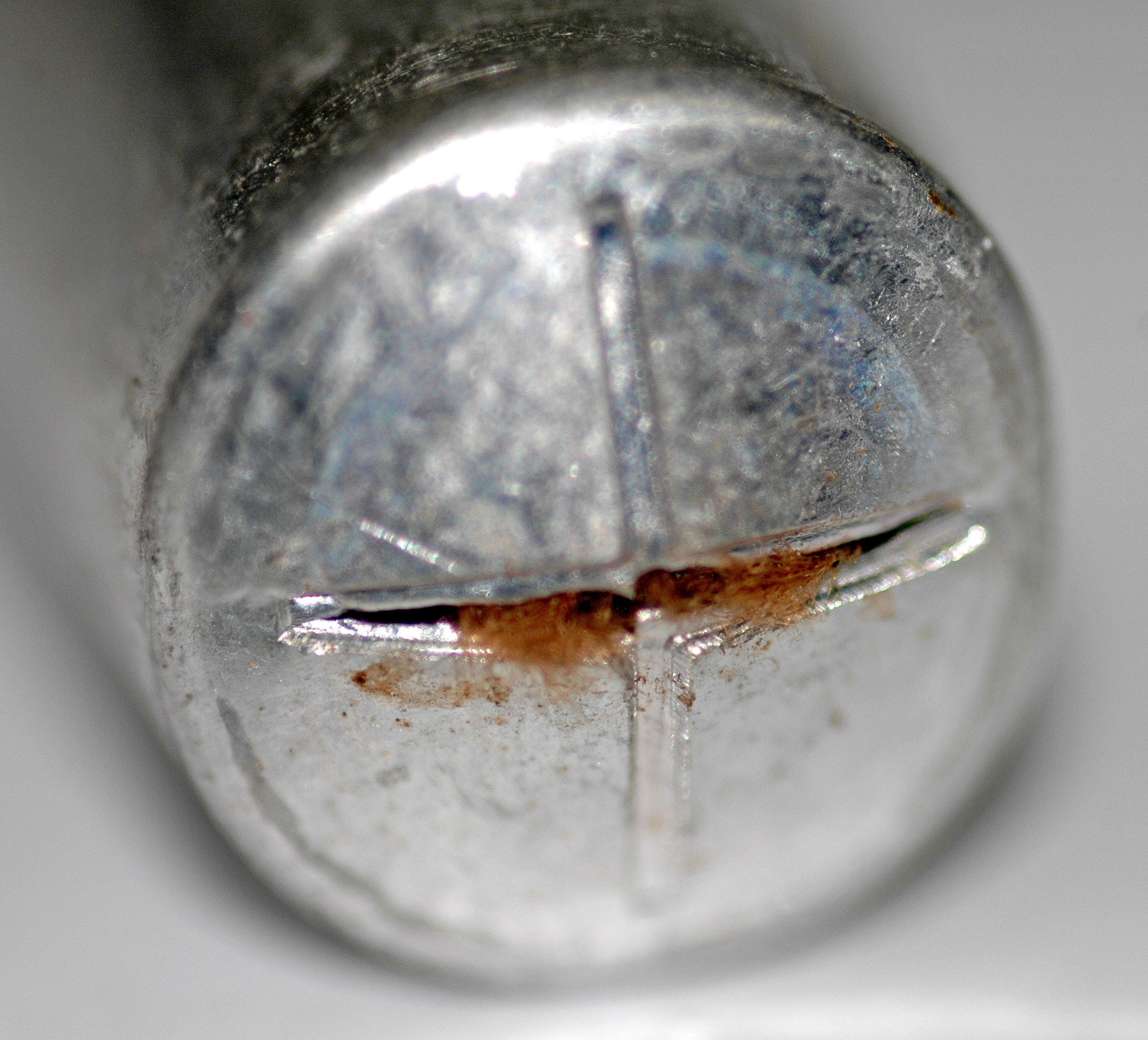 A capacitor blown up due to overheating from abnormal DC current conduction.